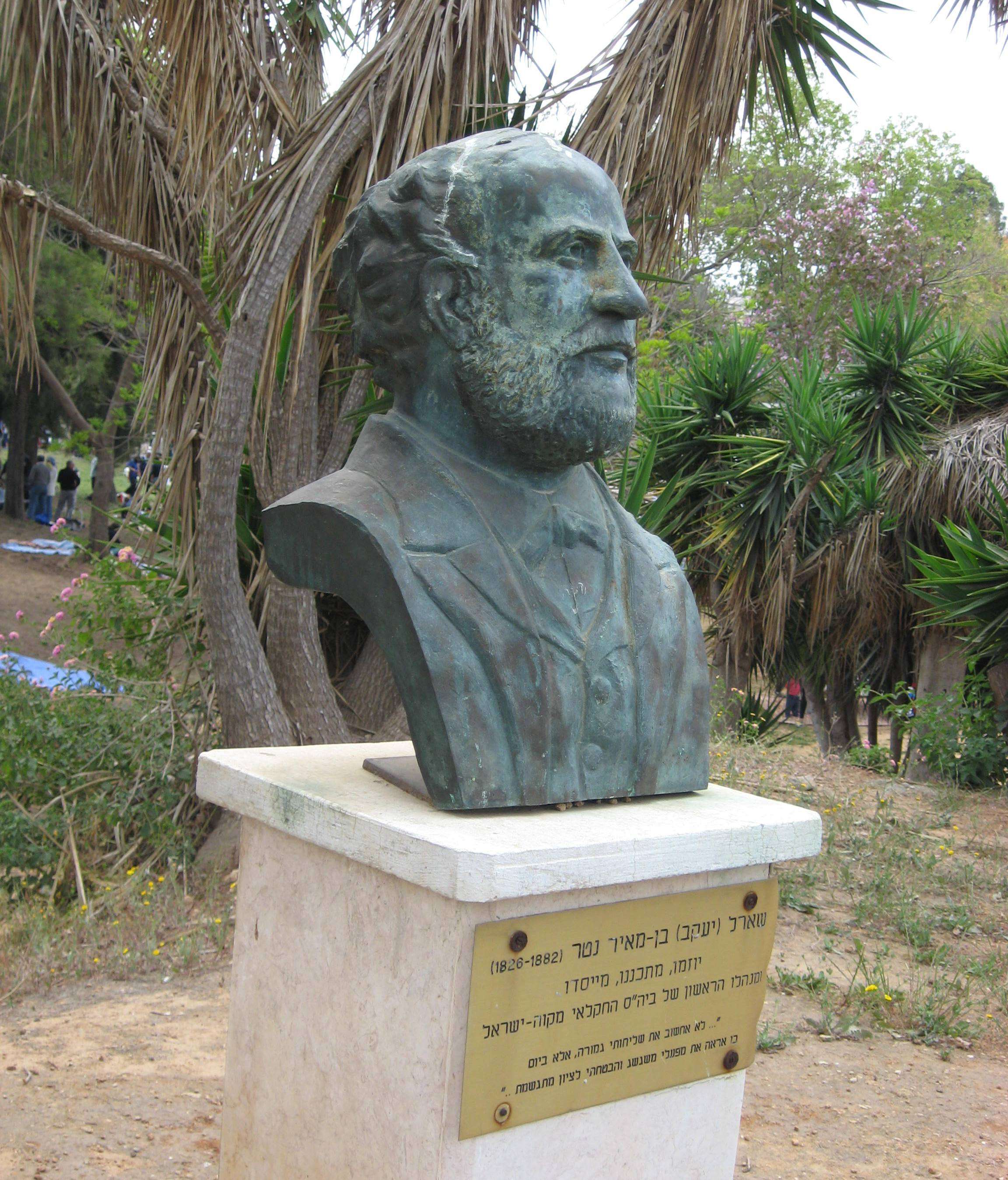 Bust of Charles (Yaakov) Netter in Mikveh Israel, Israel